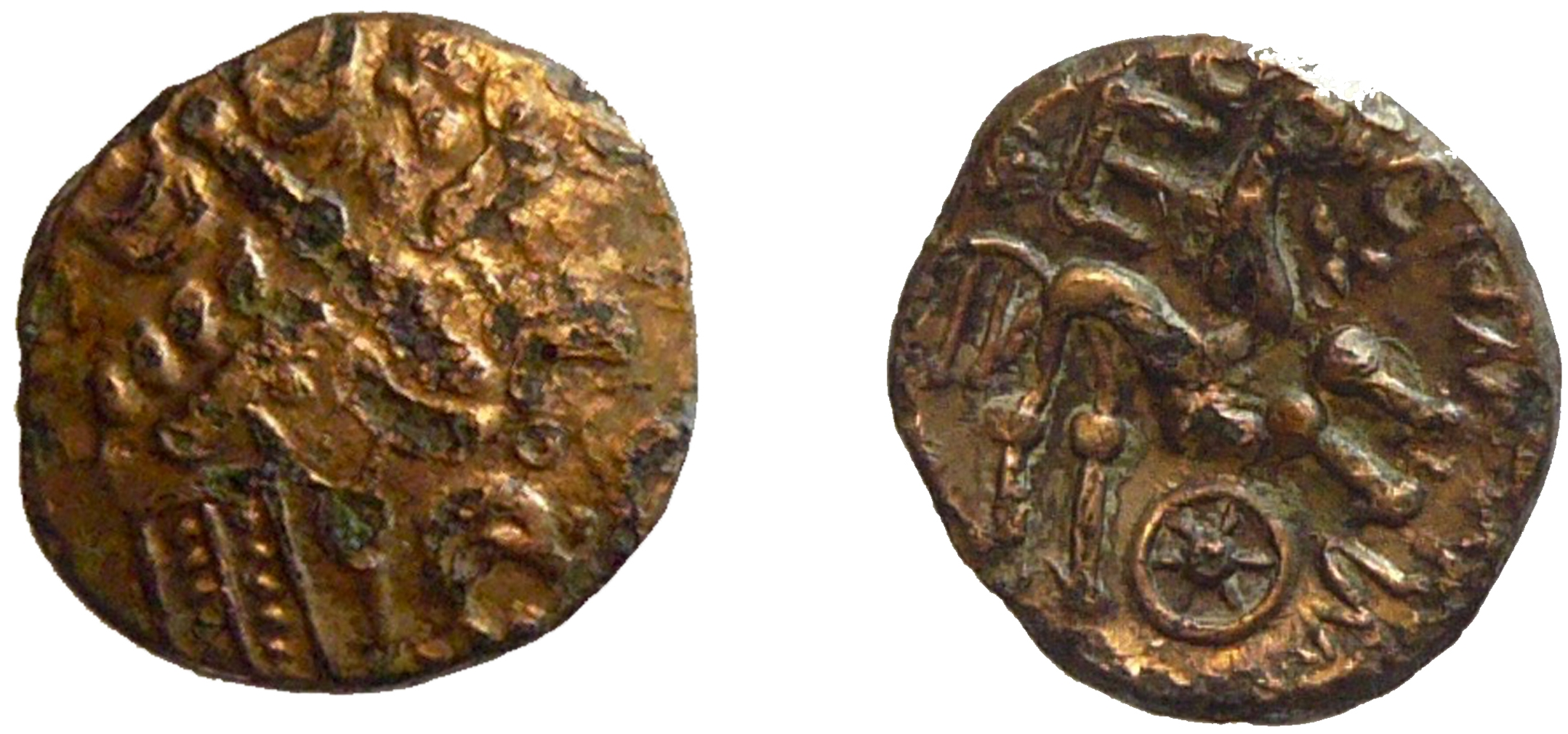 An Iron Age plated gold stater of the Southern Region / Regini and Atrebates, struck for Commius, dating to the period c.50-25 BC, 'Commius E-Type'. Obverse: Wreath design with two hidden faces. Reverse: Horse right, wheel below, E symbol above, [CO]MMIOS below and front. Cf. ABC, p. 66, no. 1025; VA 352-1.